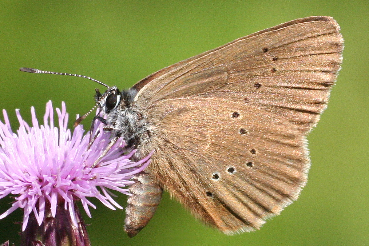 A Dusky Large Blue (Glaucopsyche nausithous), photographed in Schwäbisch Hall-Wackershofen